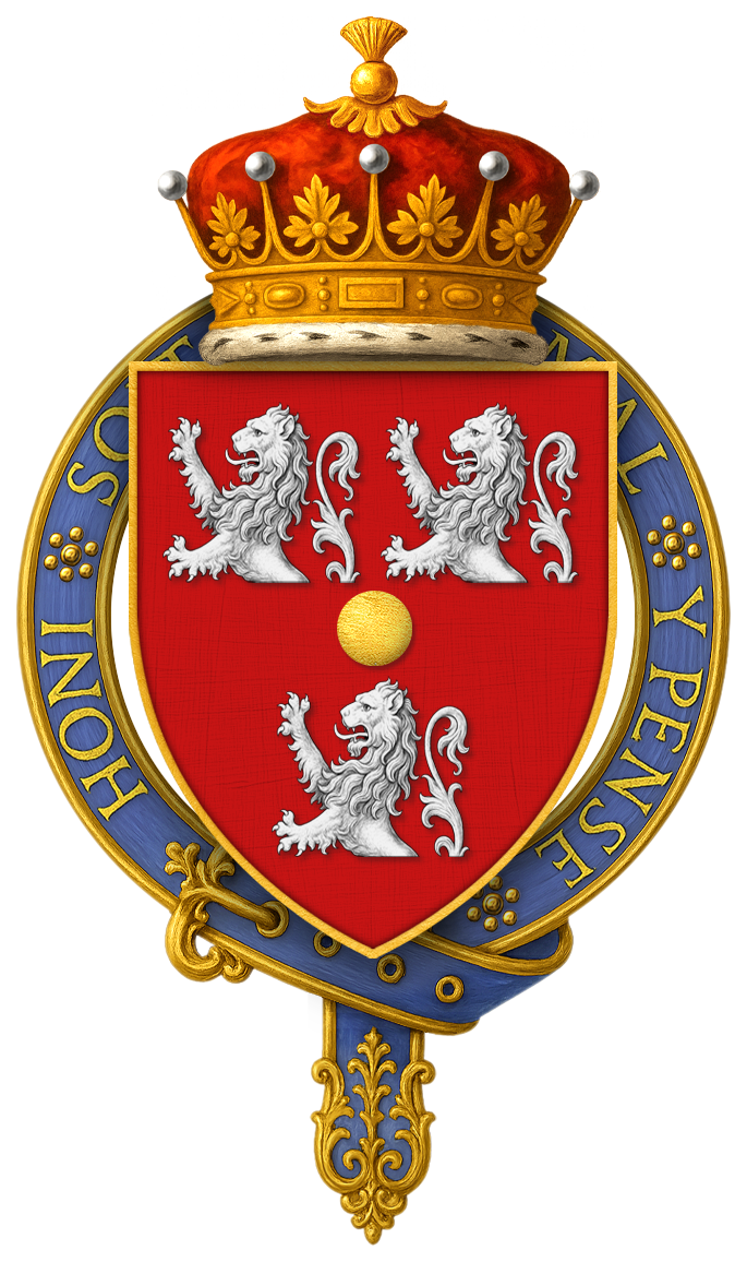 Coat of arms of Henry Bennet, 1st Earl of Arlington, KG, PC